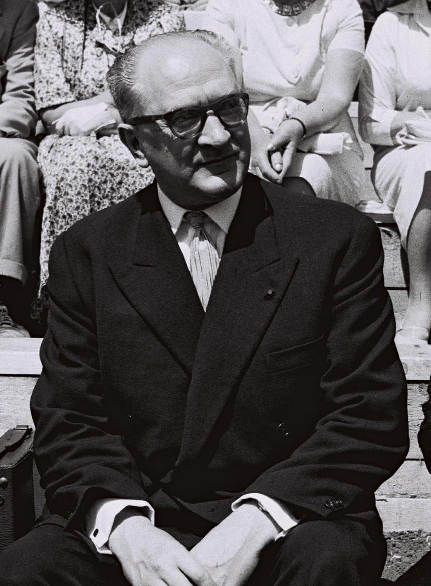 Guy Mollet, former PM of France, at Israel's Independence Day Parade in Tel Aviv, May 13, 1959